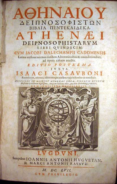 Athenaeus, Deipnosophists, in five books, edited by Isaac Casaubon (Athenaiou Deipnosophiston biblia pentekaideka; Athenaei Deipnosophistarum, libri quindecim)